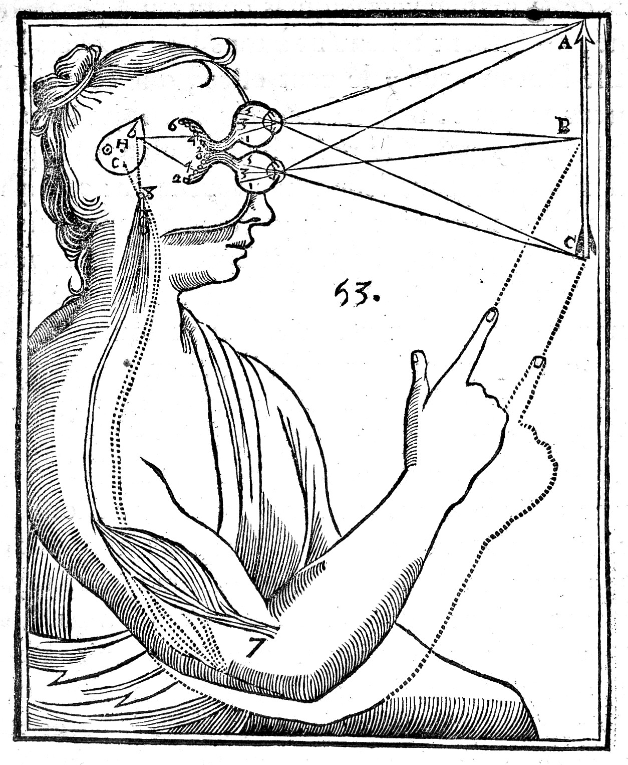 Descartes: A Treatise on the formation of the foetus Rare Books Keywords: Philosophy; Mathematics; Anatomy; Embryology; Obstetrics; Rene Descartes